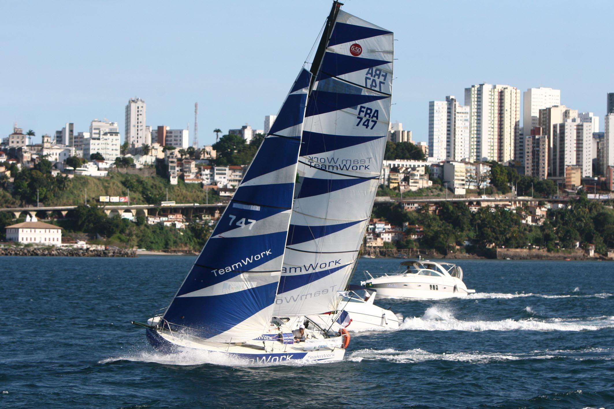 747 TeamWork. Winnerboat of 2011 Mini Transat.